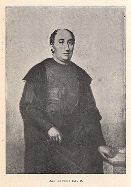 Jean-Baptist David (1801-1866), Flemish professor and writer, from Lier, Belgium